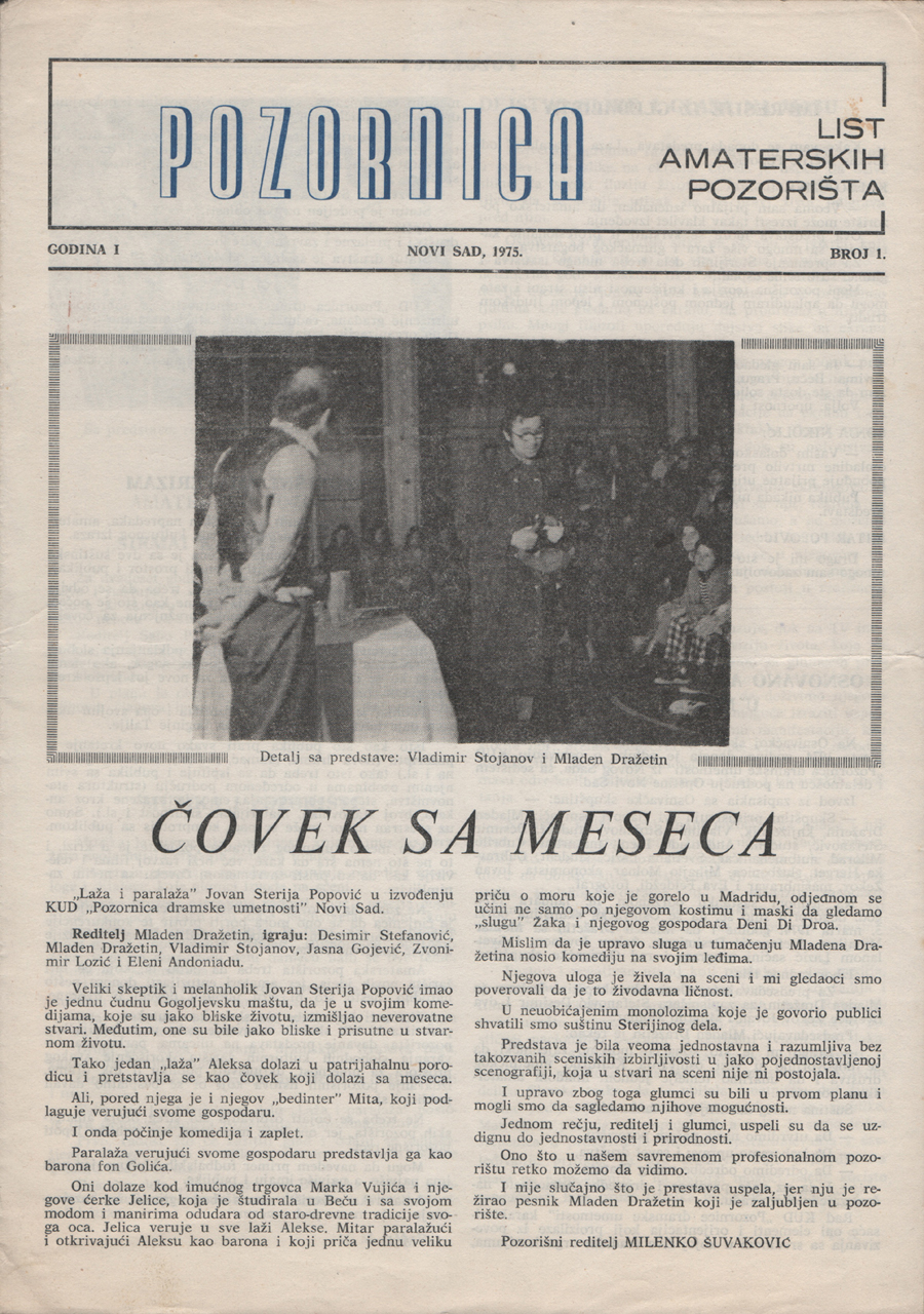 Front page of the first number of magazine "Pozornica", published in Novi Sad in 1975.